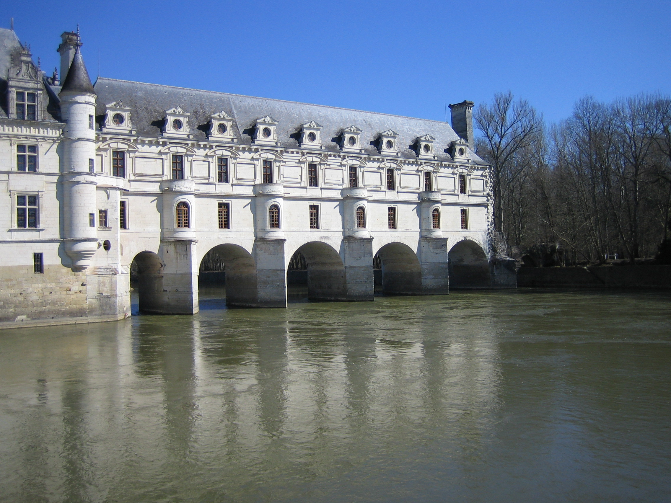 Château de Chenonceau - France Author: Raph Date: 20 March 2005